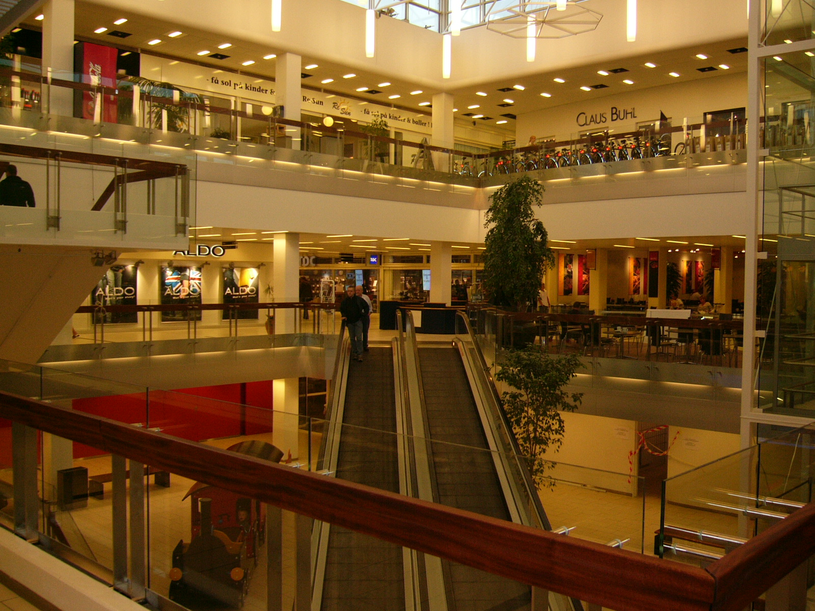 The inside of Storcenter Nord, Århus.